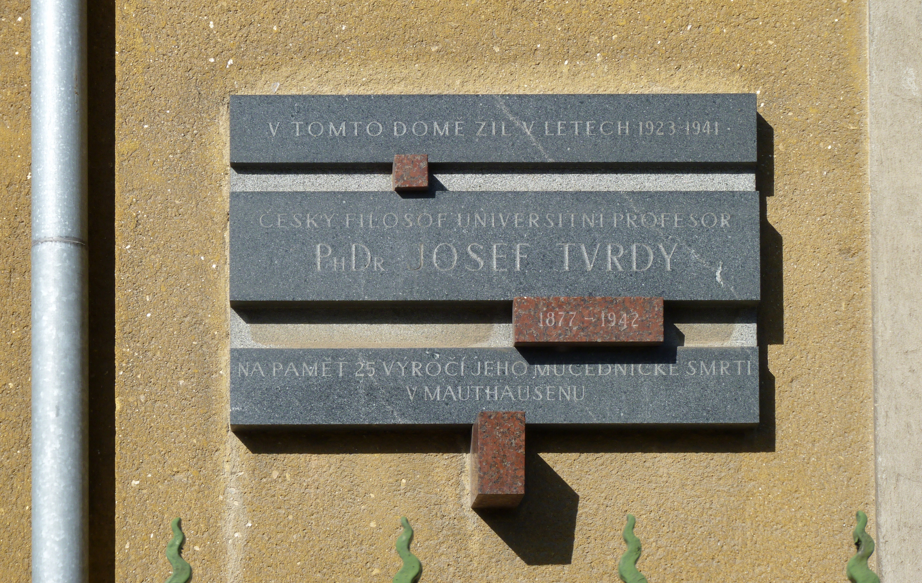 Memorial plaque of Czech philosopher Josef Tvrdý at the house, where Josef Tvrdý lived between 1923-1941. Plaque is from 1967 and its author is M. Axman.